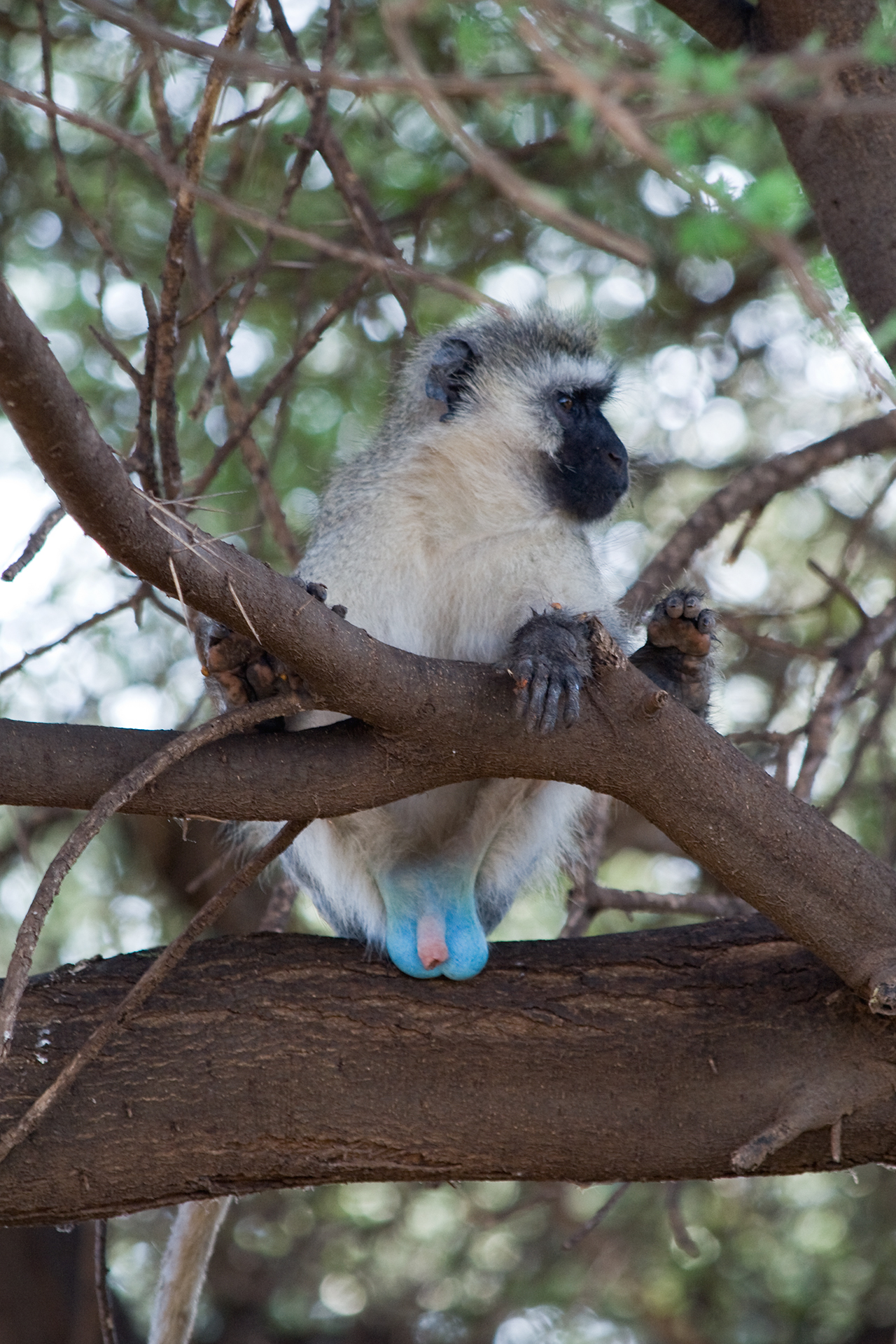 Black faced vervet monkey recorded on safari in Tanzania